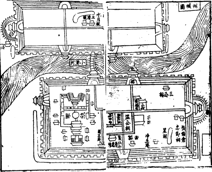 the guangzhou details